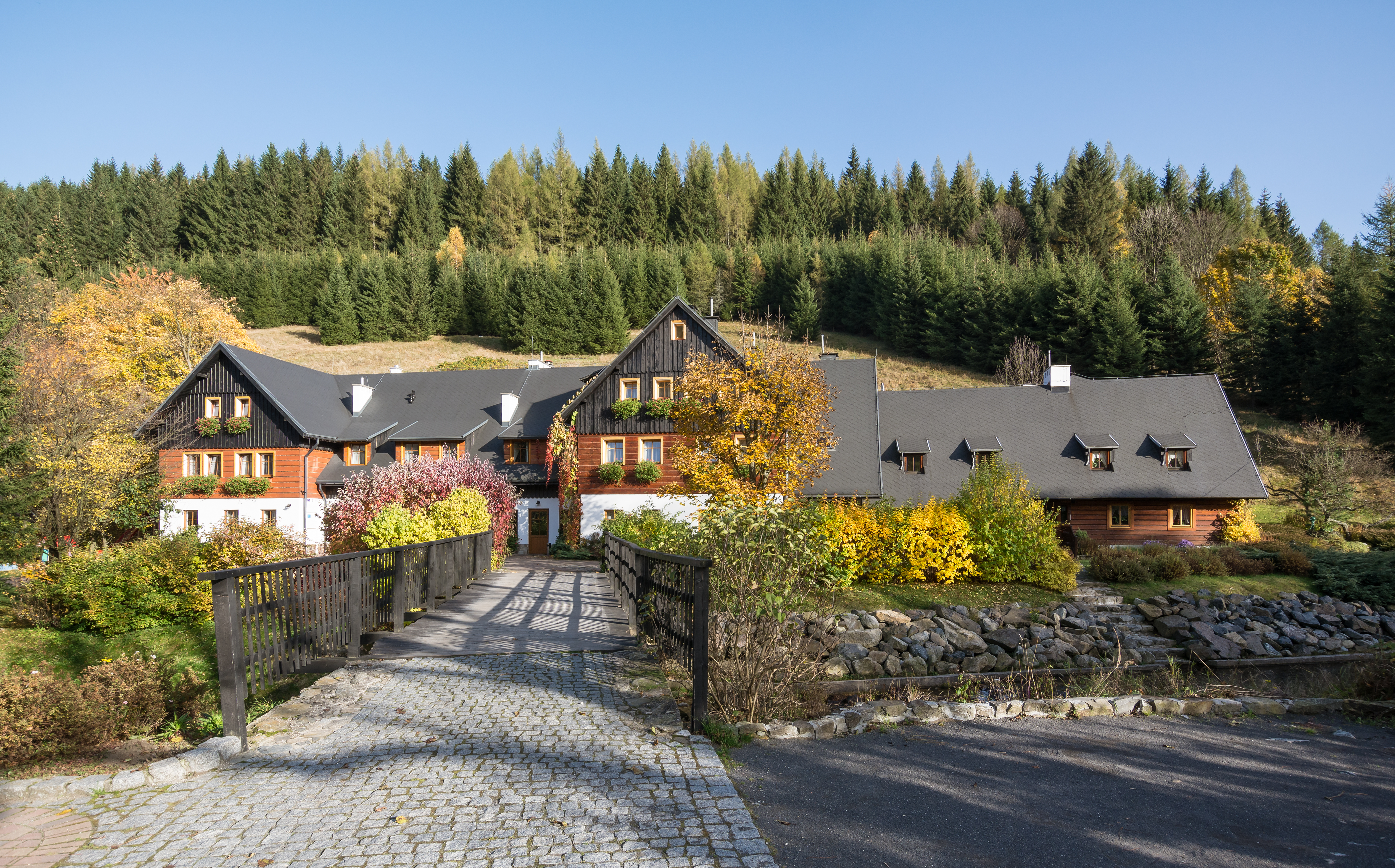 Chata Cyborga in Bielice